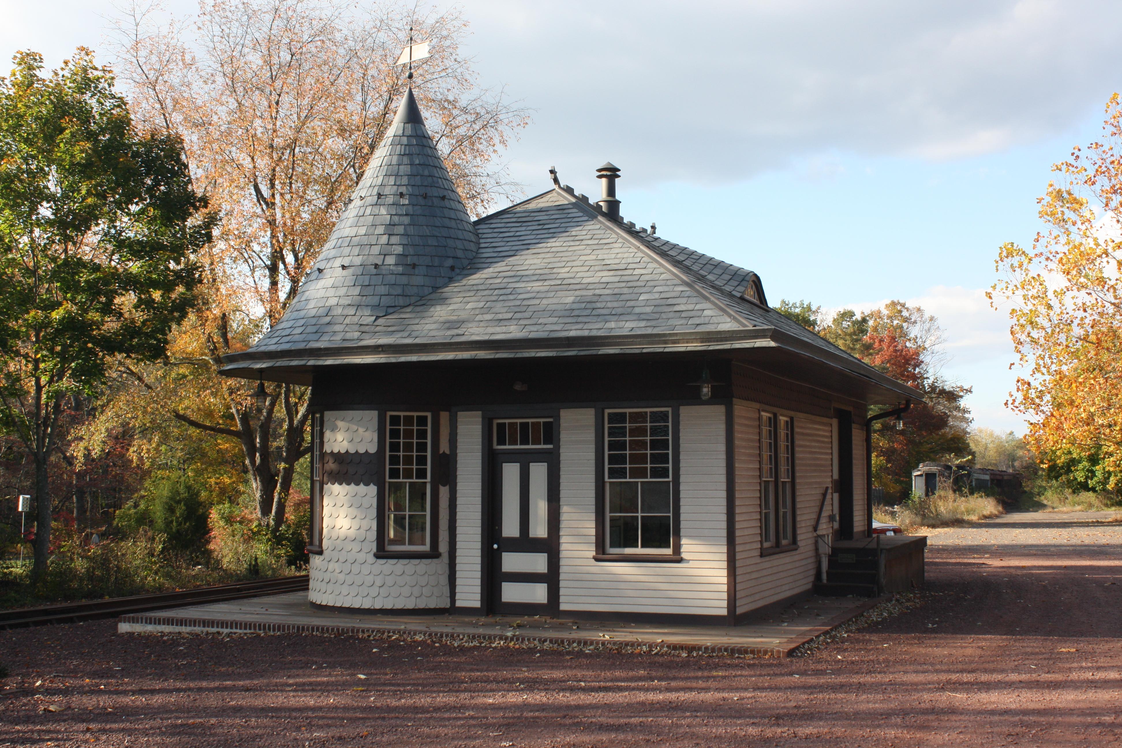 Wycombe Village Historic District, is a national historic district located in Wycombe, Buckingham Township and Wrightstown Township, Bucks County, Pennsylvania. Train Station. Object location40° 16′ 57″ N, 75° 01′ 07″ W